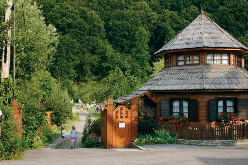 Secler gate and house in the entrance of the Vasskert camping, at Sovata (Transsylvania)